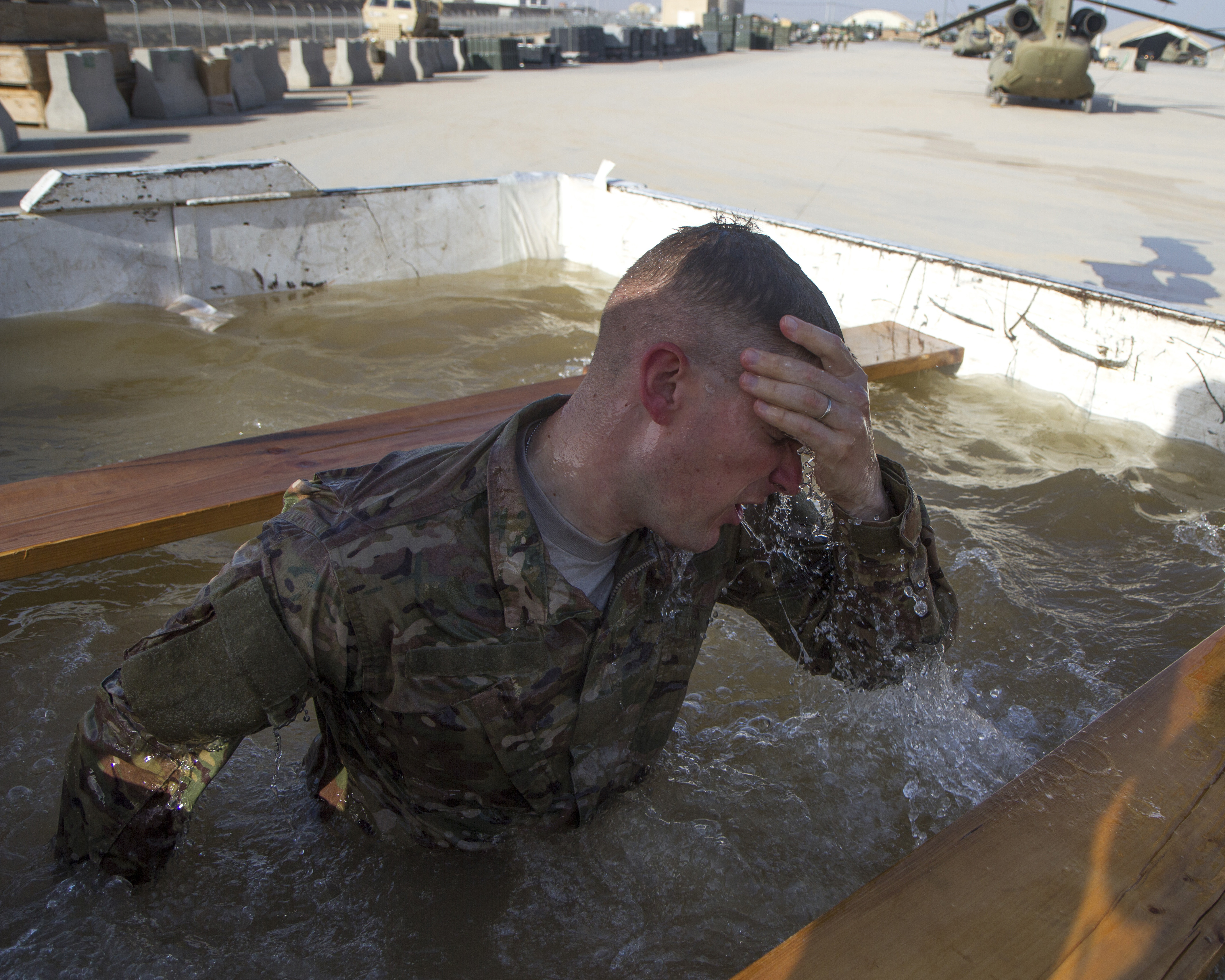 First Lt. Benjamin Waters, the battalion personnel officer for 2nd Battalion, 3rd Aviation Regiment, Task Force Knighthawk, reemerges from the ice bath portion of the “Mustang Mudder” obstacle course May 5 at Kandahar Airfield, Afghanistan. The “Mustang Mudder” event was a test of Task Force Knighthawk soldiers’ toughness, strength, stamina, camaraderie, and mental agility.